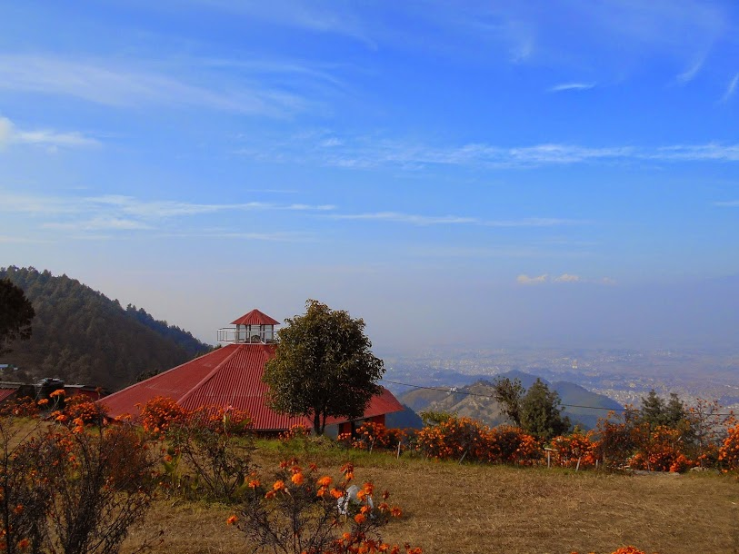 रानीकोटबाट देखिएको दृष्य